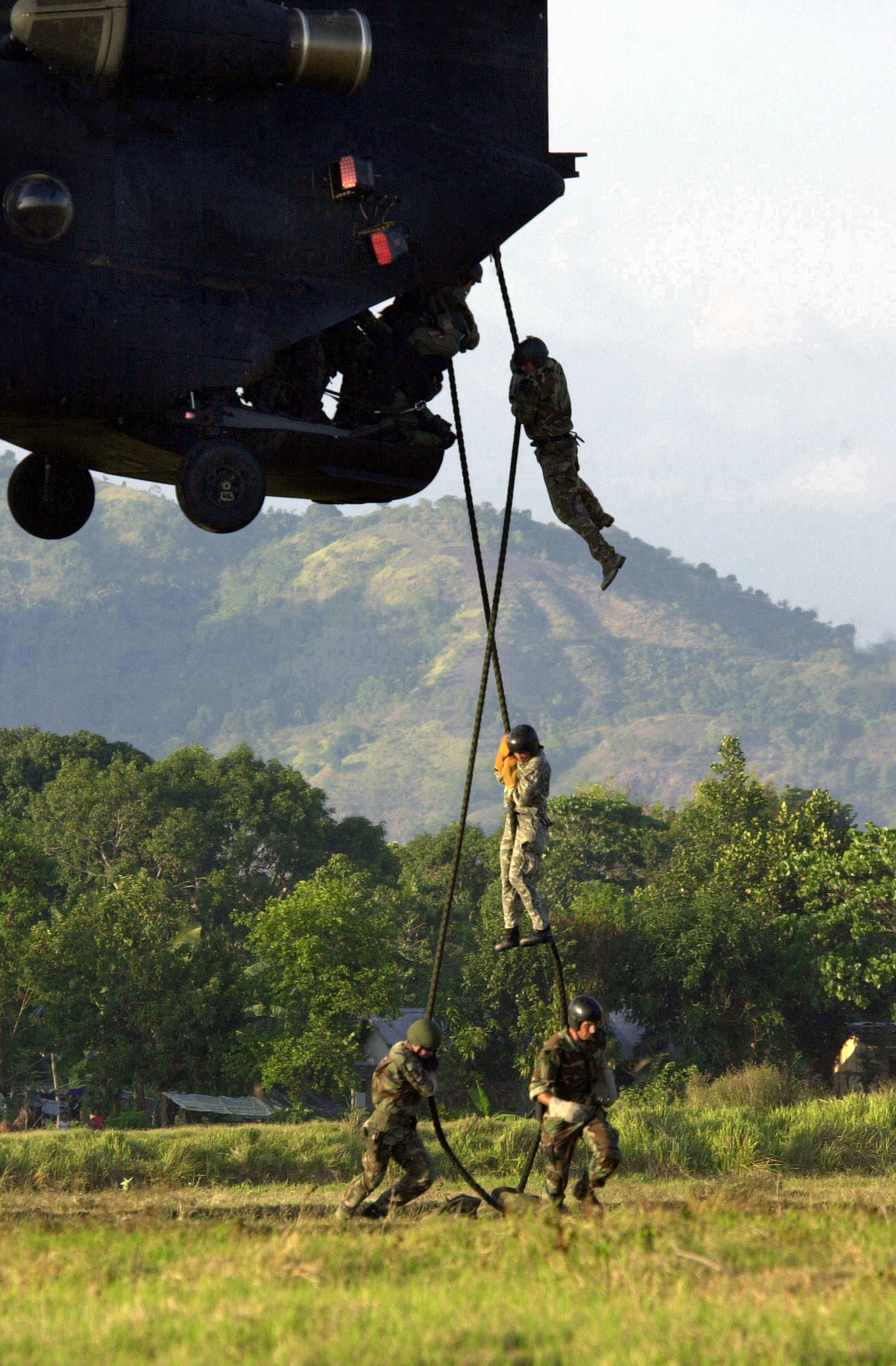 Zamboanga City, Republic of The Philippines (Mar. 14, 2002) -- U.S. Navy SEALs (Sea Air Land) train members of The Republic of The Philippines’ Naval Special Warfare Unit on Fast Rope Infiltration and Exfiltration System (FRIES) concepts. FRIES is a method of dropping off and picking up special operations groups from a variety of field environments. U.S. and Philippine forces are training together in an “advise & assist” mission in support of Operation Enduring Freedom. U.S. Navy Photo by Photographer’s Mate 2nd Class Andrew Meyers. (RELEASED) US Navy Seals were part of the JTF 510 to assist the Philipine Armed Forces.